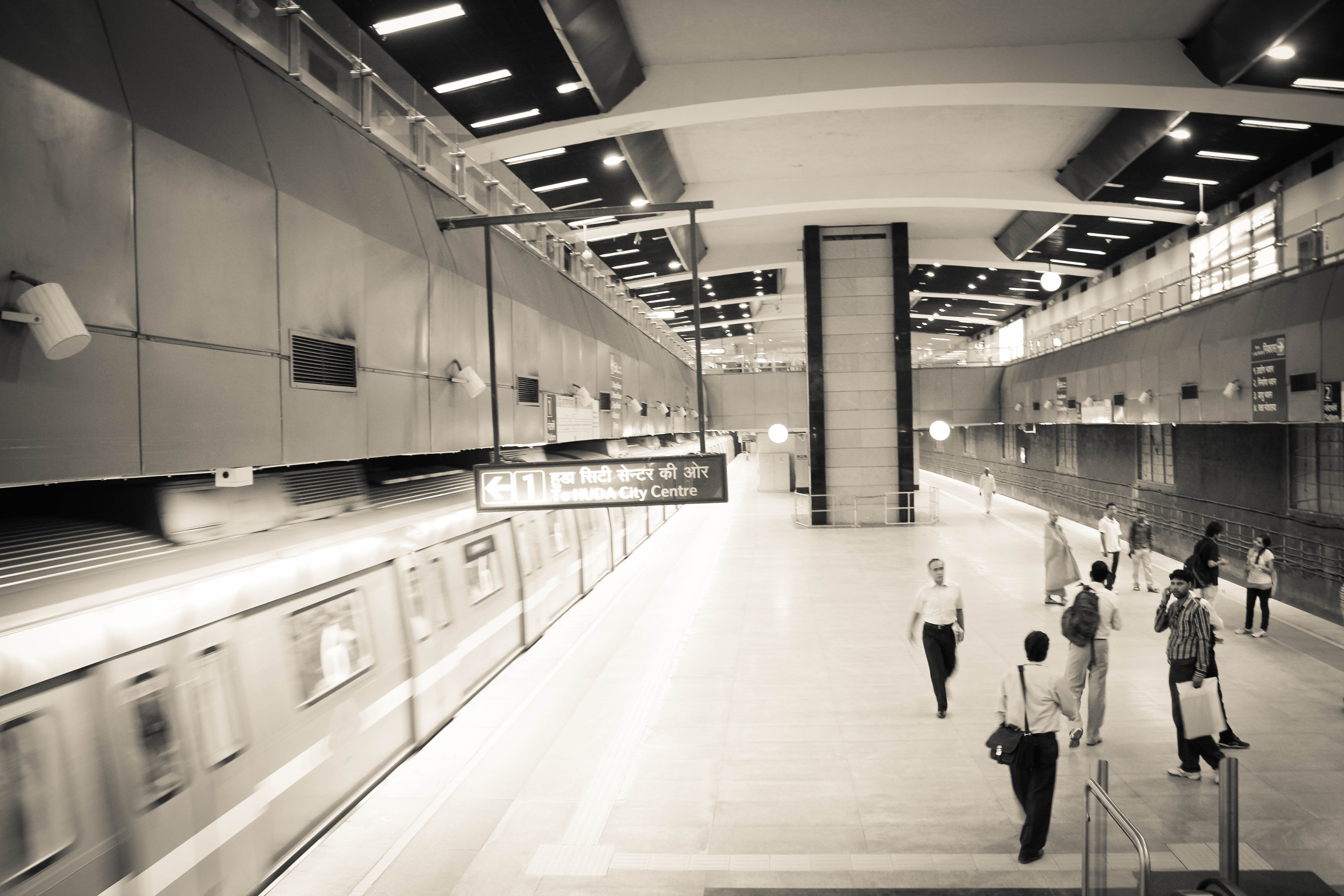 An underground station on the Yellow Line of the DMRC network. Southbound train racing towards HUDA City Centre, the southern terminus of the line in Delhi's adjoining satellite town of Gurgaon.